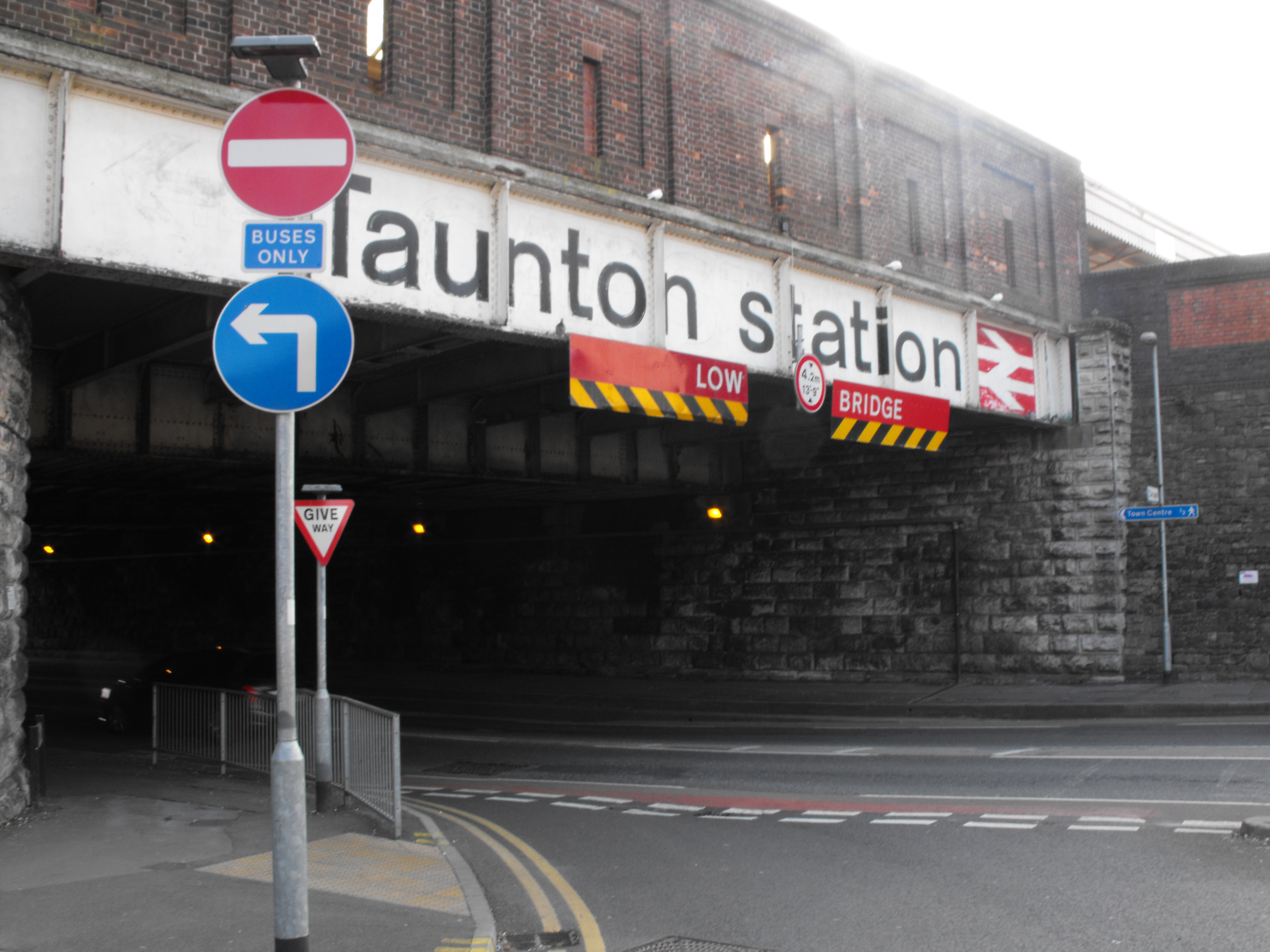 Viaduct in Taunton